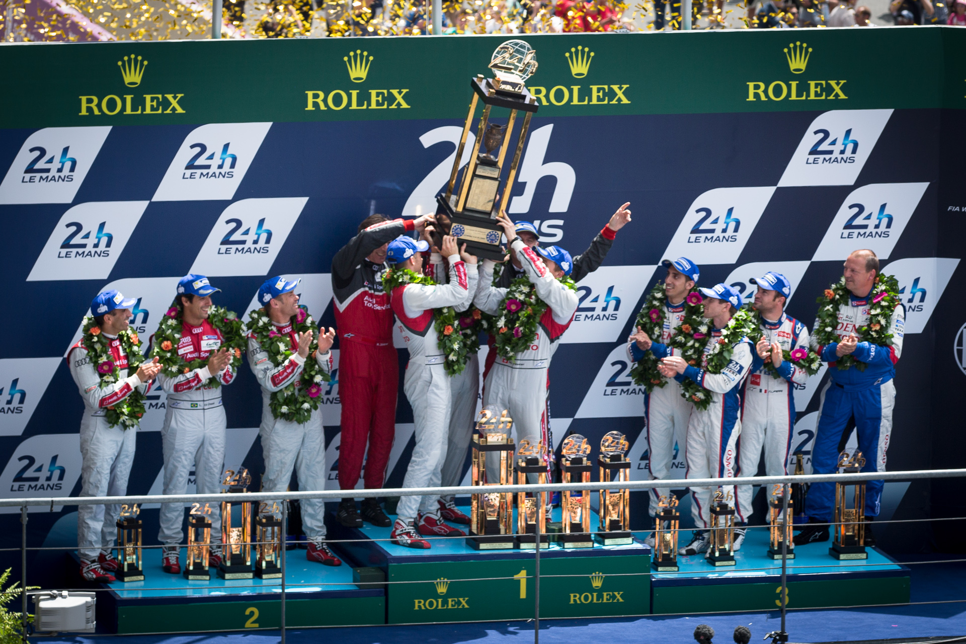 The podium for the 2014 24 Hours of Le Mans. 1st place, Benoît Tréluyer, Marcel Fässler, and André Lotterer for Audi, 2nd place Lucas di Grassi, Tom Kristensen, and Marc Gené of Audi, and 3rd place Anthony Davidson, Sébastien Buemi, and Nicolas Lapierre for Toyota.